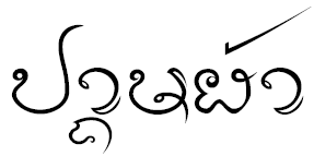 Lanna script – Pang Mapha is the northernmost district (Amphoe) of Mae Hong Son Province, northern Thailand.